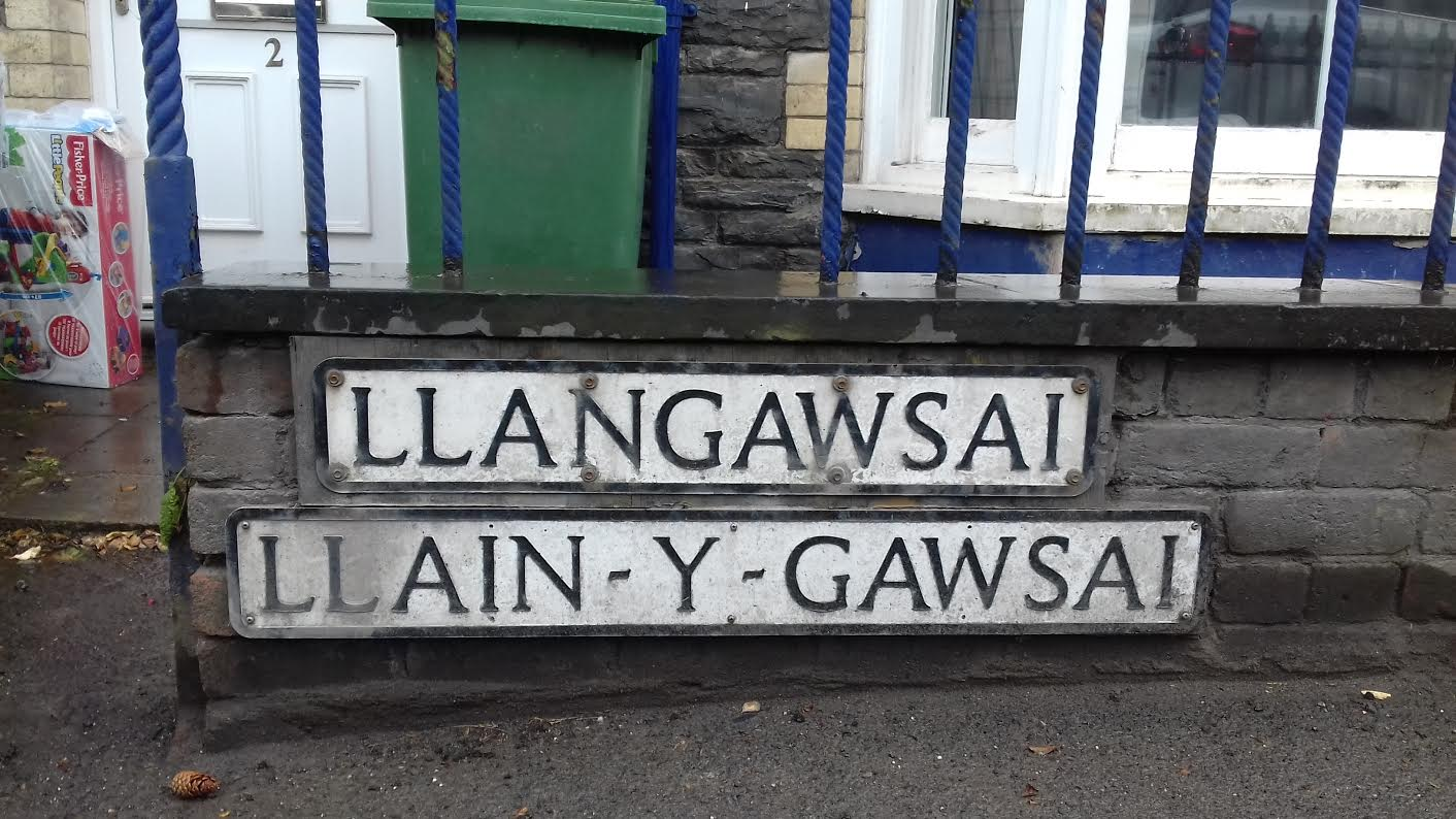 Llangawsai: roadsign locating neighbourhood, Aberystwyth